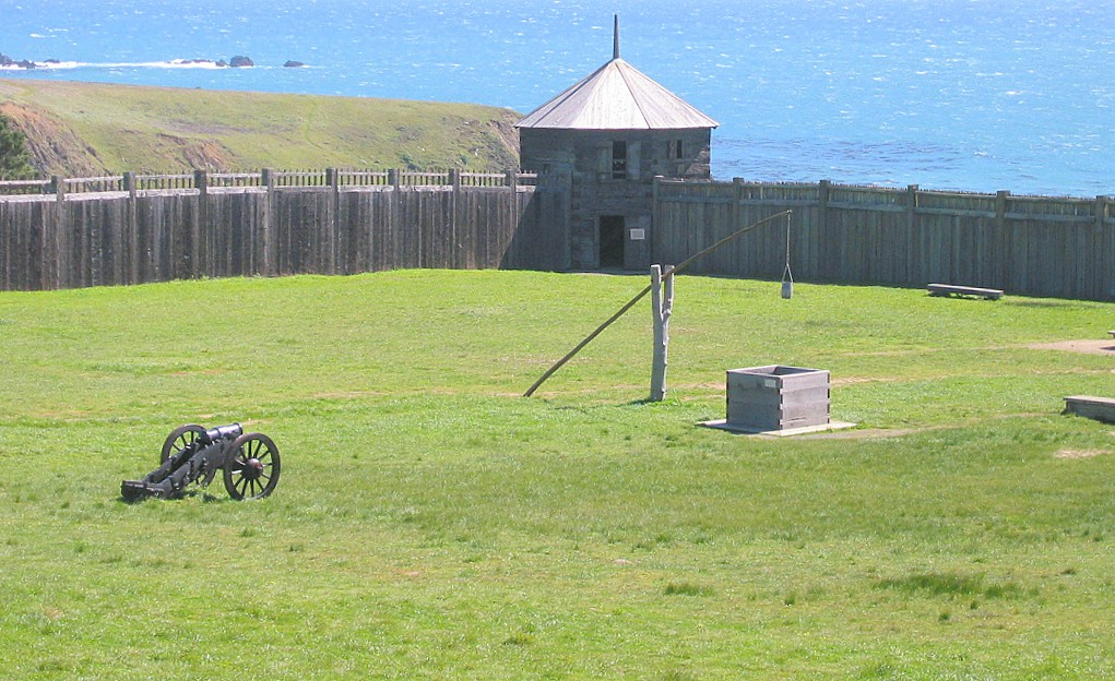 Place: Fort Ross@North Coast@California@USA